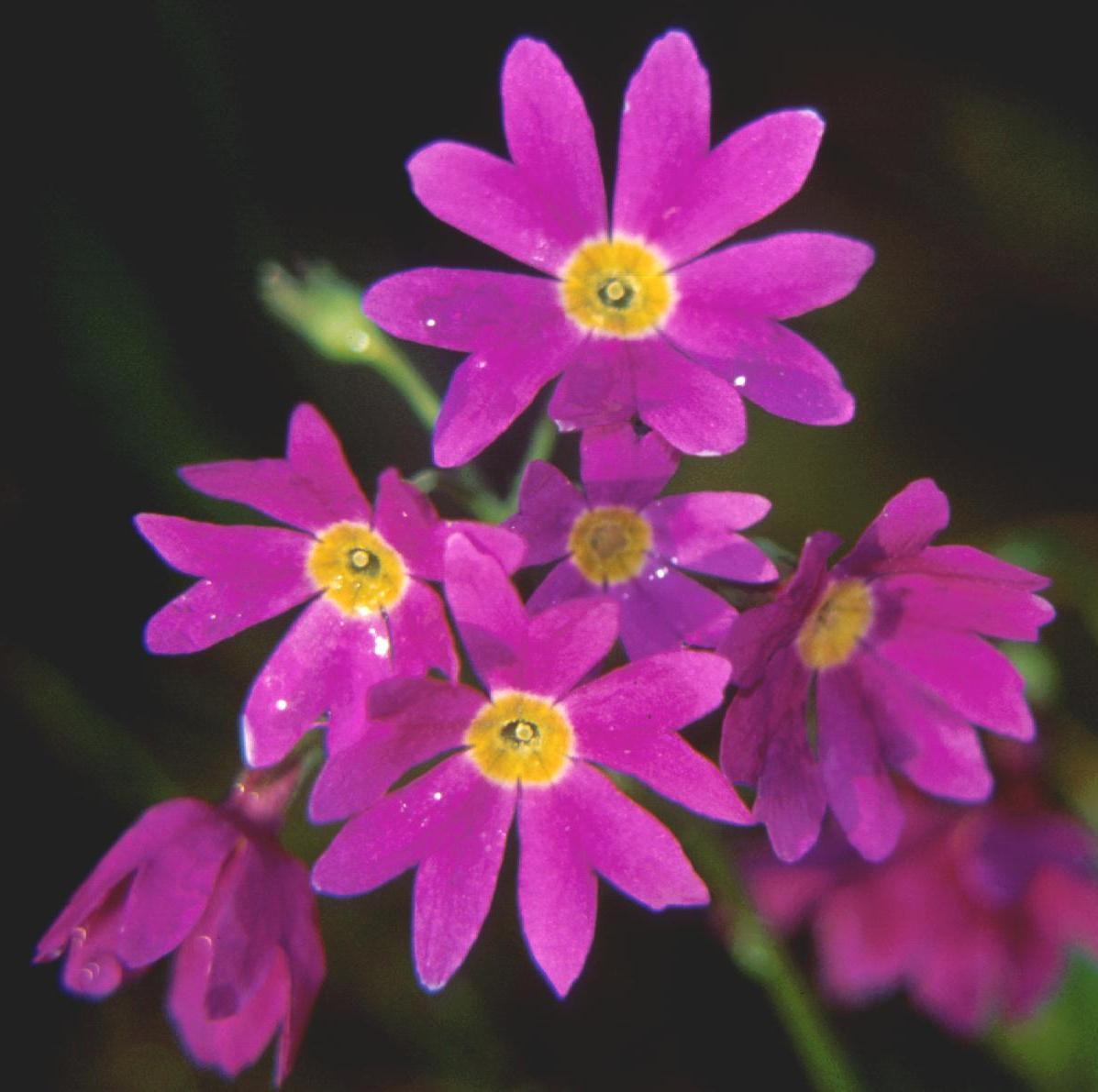 Primula_cuneifolia_in_Midoridake_Hokkaido_2006-8-5